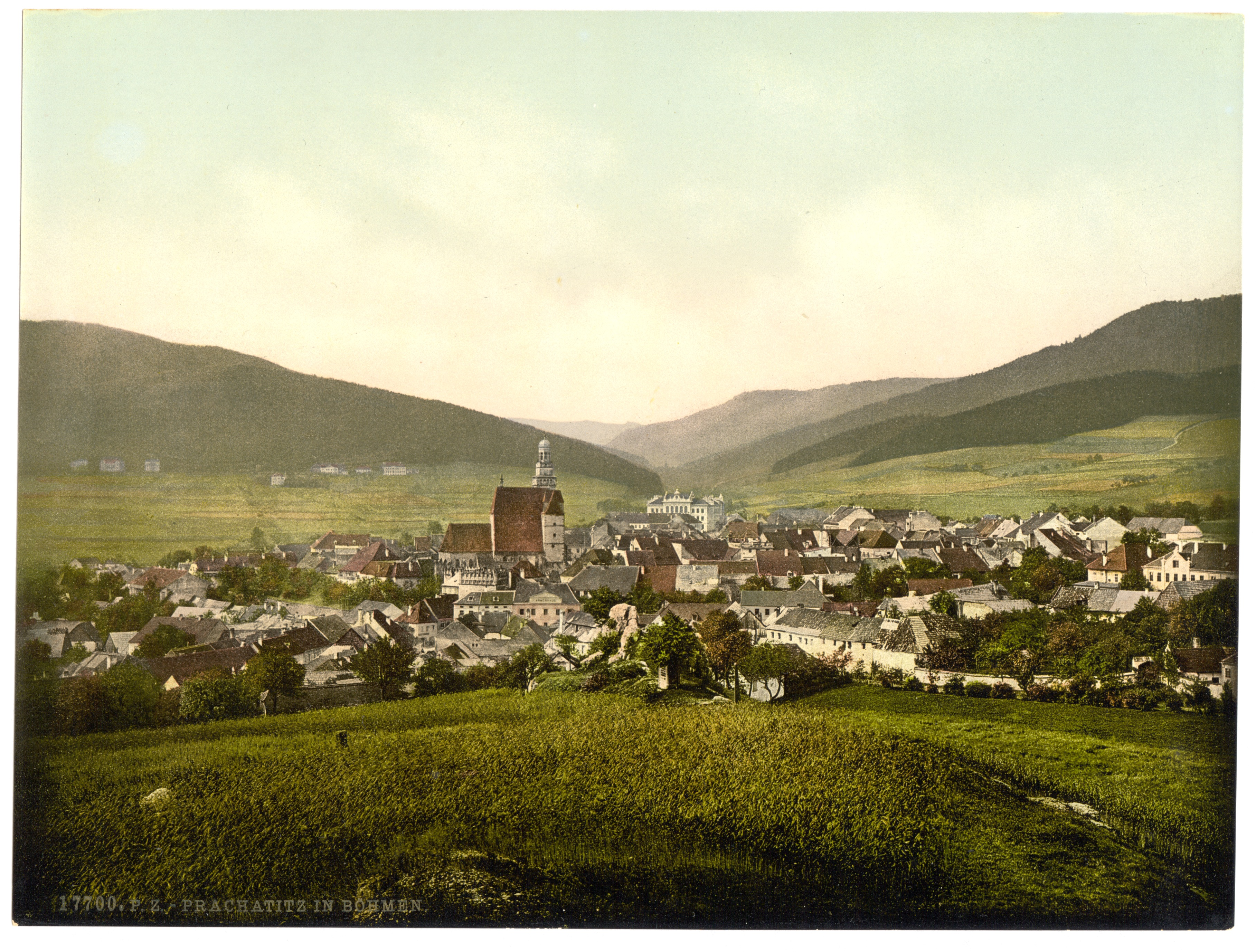 Forms part of: Views of the Austro-Hungarian Empire in the Photochrom print collection.; Print no. "17700".; Title from the Detroit Publishing Co., Catalogue J-foreign section, Detroit, Mich. : Detroit Publishing Company, 1905.